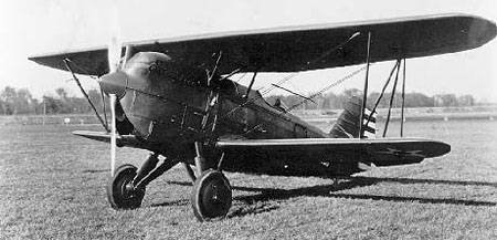 Curtiss P-6 Hawk